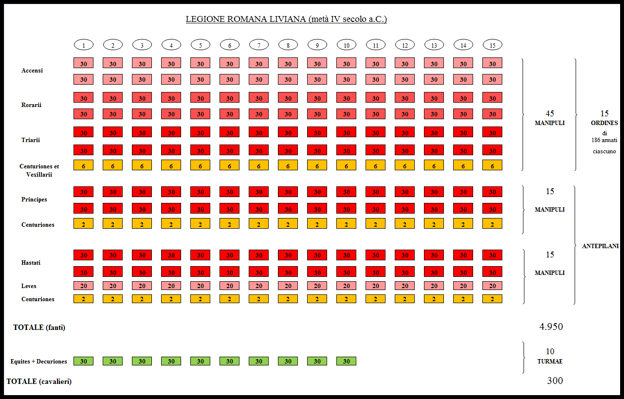 Roman legion at the time of Latin's war (340-338 BC) in Livius' description - disposition